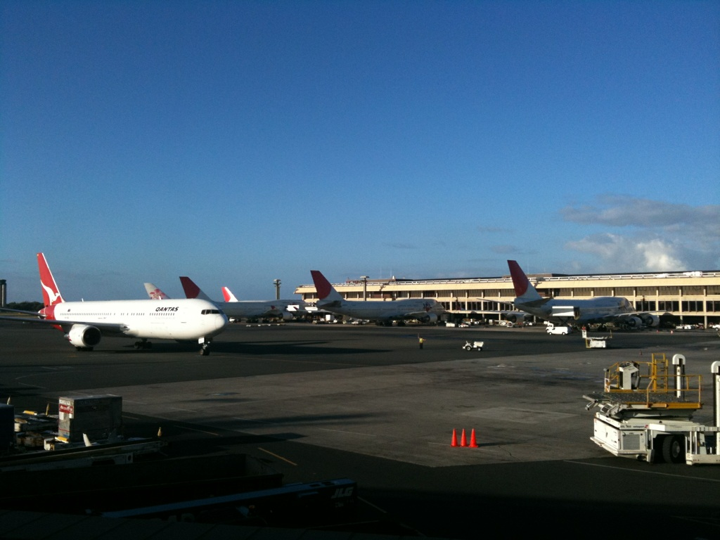 Japan Airlines Boeing 747-400s and Qantas Boeing 767-300 at HNL